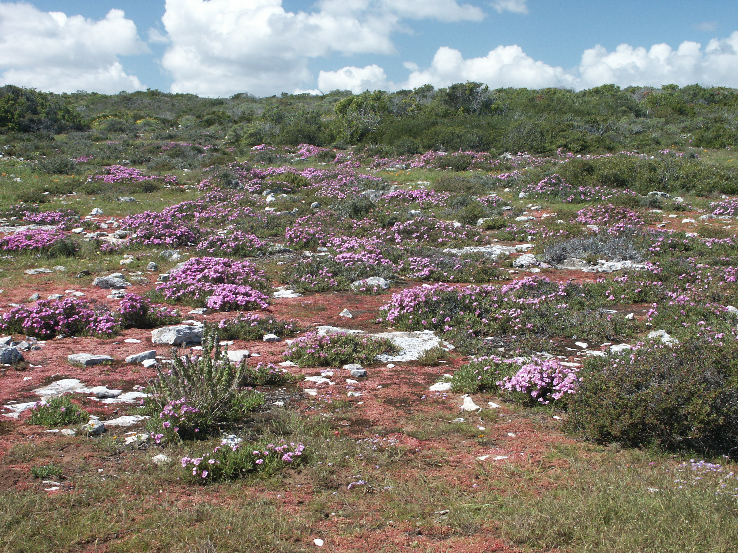 Wildflowers in Spring, West Coast National park, Western Cape, South Africa